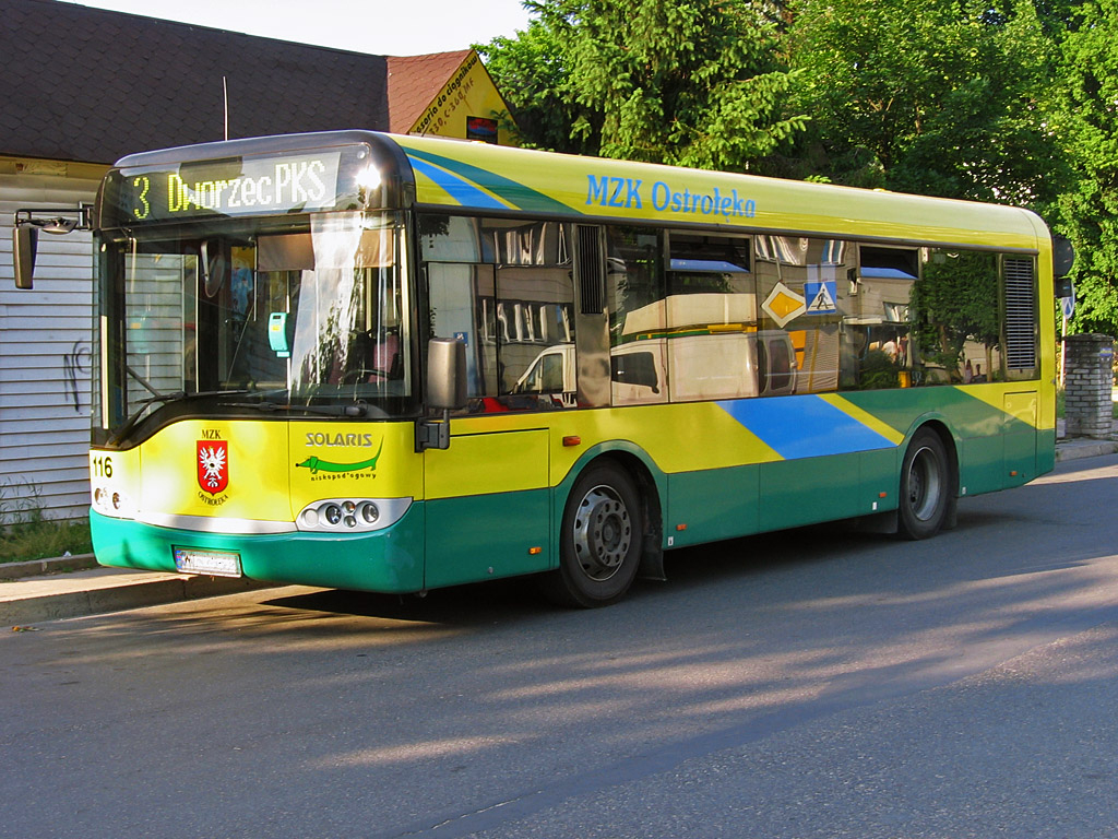 The bus Solaris Urbino 9 (#116) in Ostrołęka, Poland. Built 2000, MZK Ostrołęka operator.